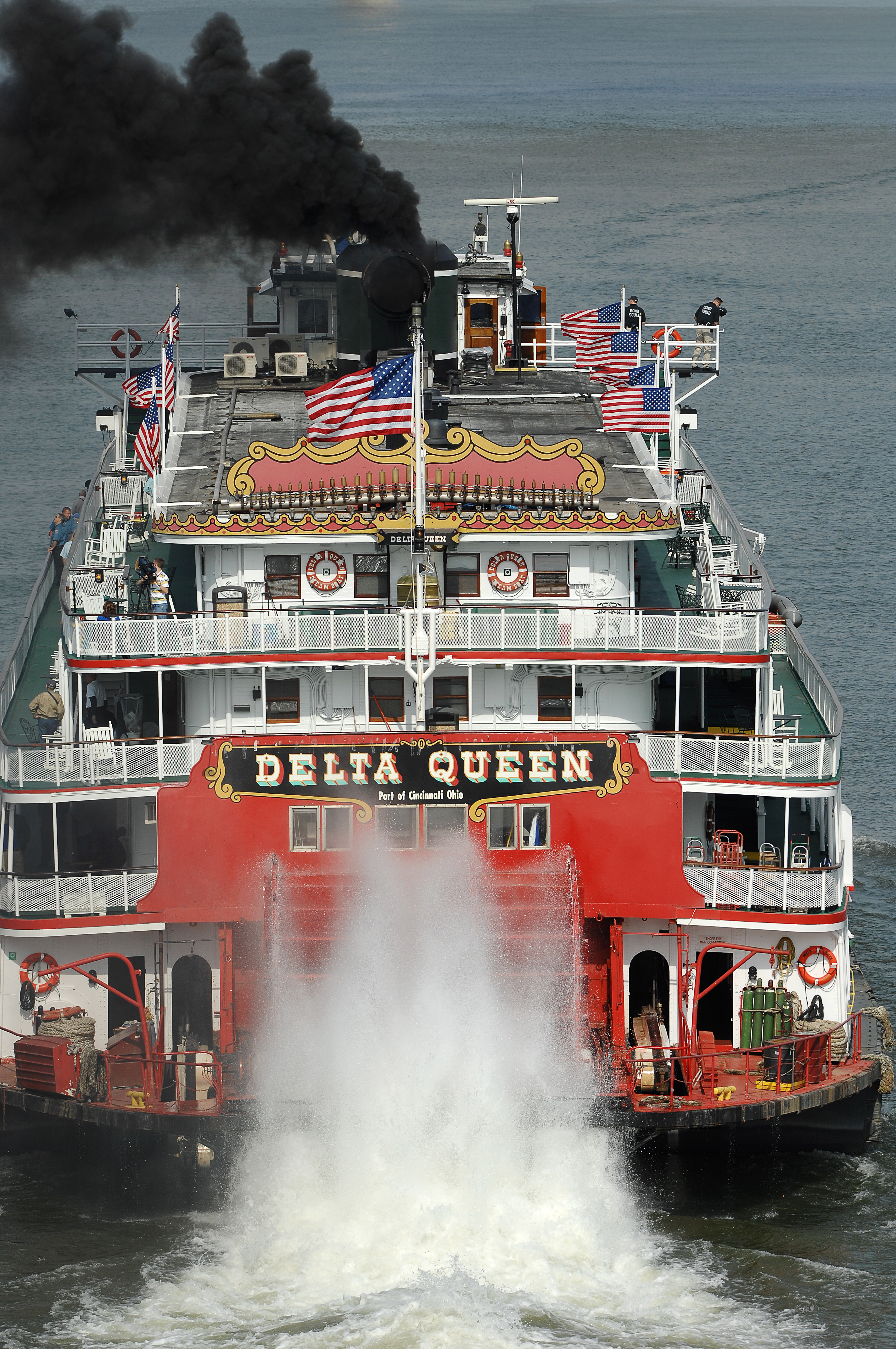 The Delta Queen at the start of the 2008 Great Steamboat Race.